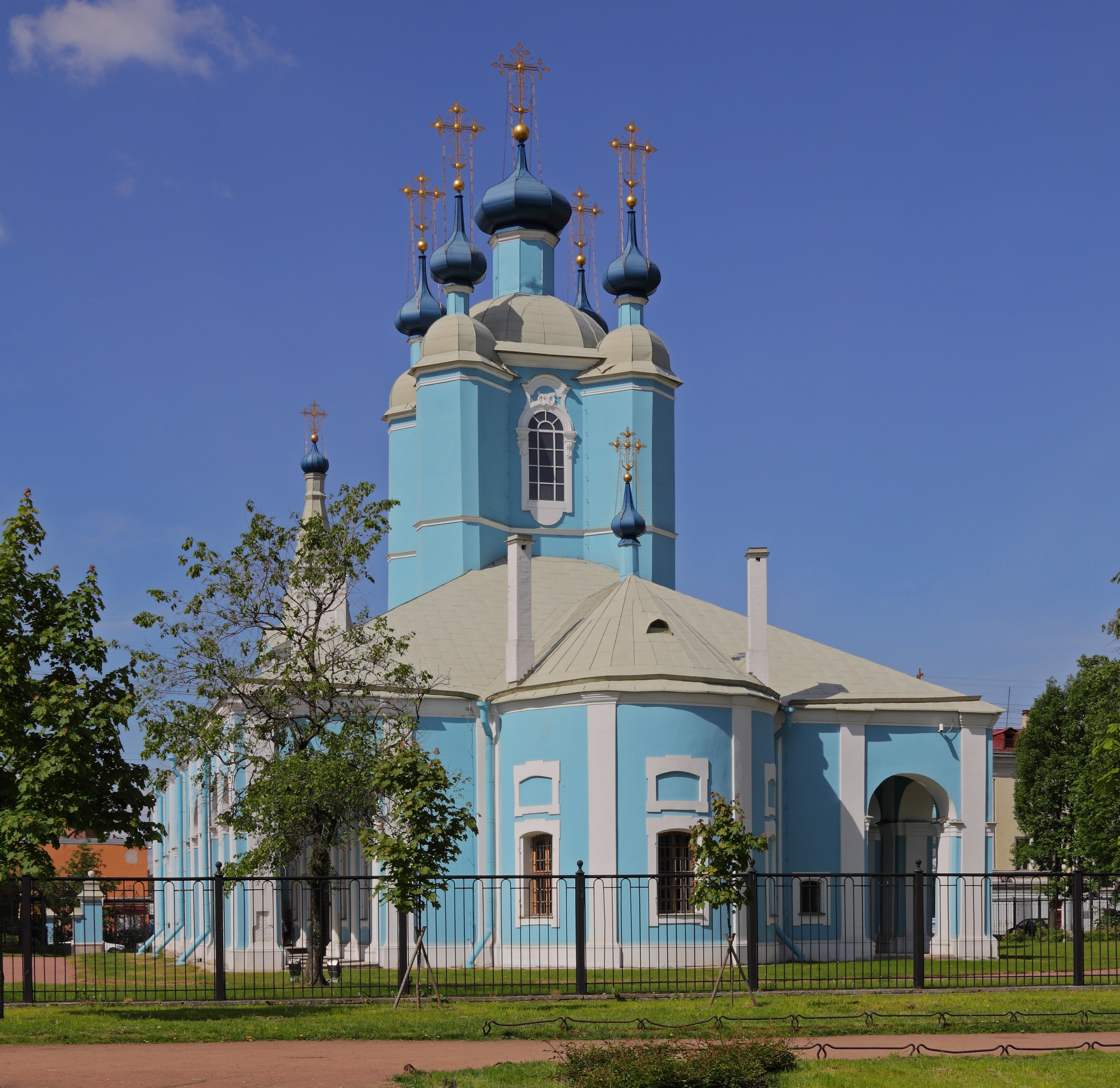 Saint Petersburg, Russia. Cathedral of St. Sampson.